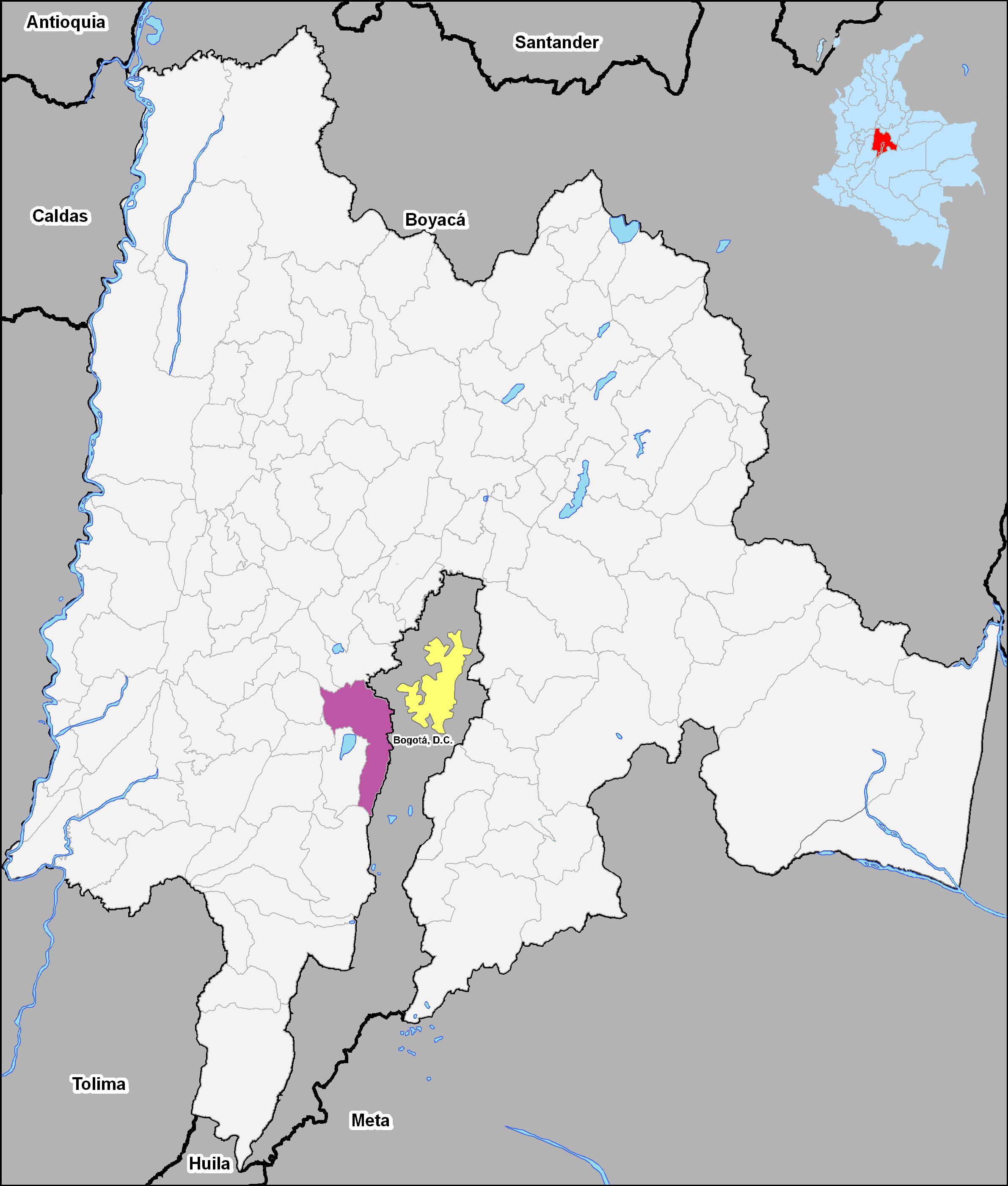 Location of the Colombian municipality of Soacha in the map of Cundinamarca.